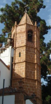 "Yellow" or "Portuguese" tower of the Real Basílica de Nuestra Señora del Pino, Grand Canary.